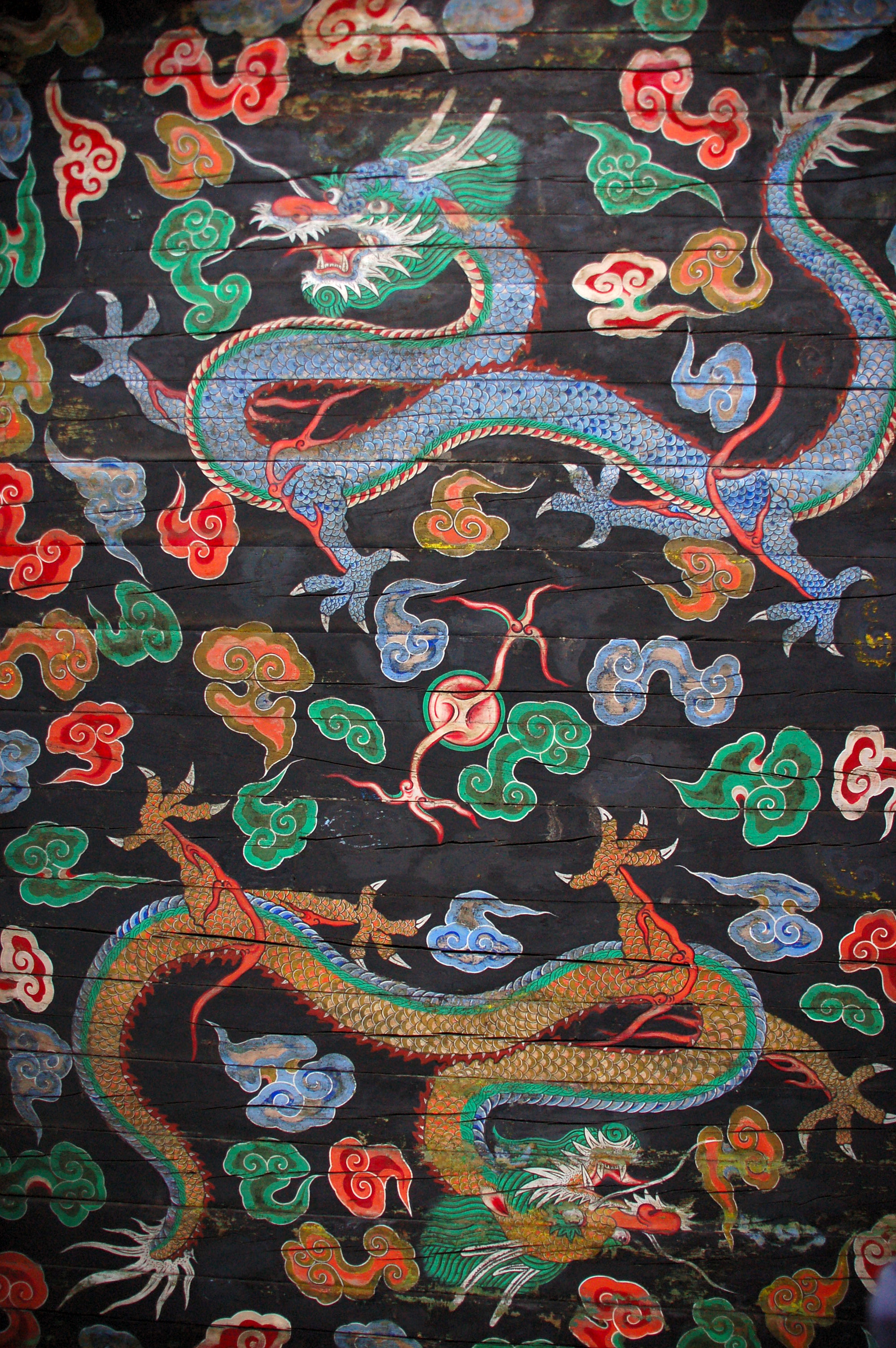 Sungnyemun, or Namdaemun literally means "Great South Gate" which has been a landmark of Seoul, Korea.